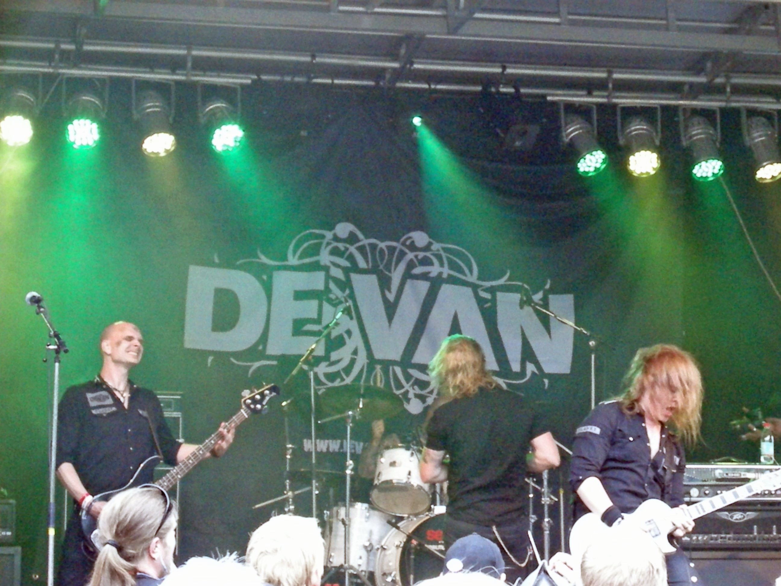 Swedish rock band De Van at Skogsröjet, Rejmyre, Sweden 2012